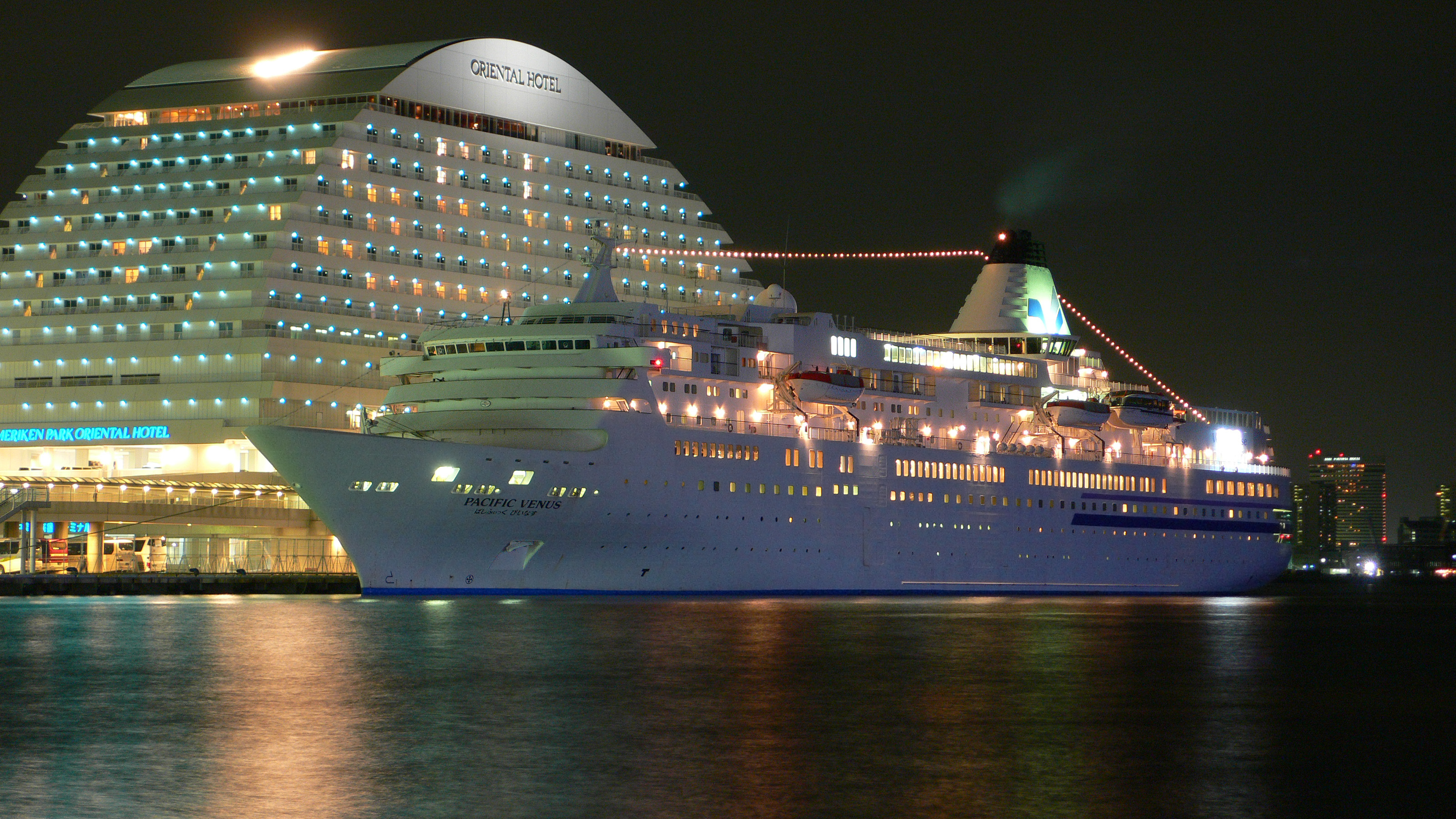 "Pacific Venus" who anchors at the wharf "Nakatottei" of the Kobe harbor ( Kobe, Hyogo, Japan)